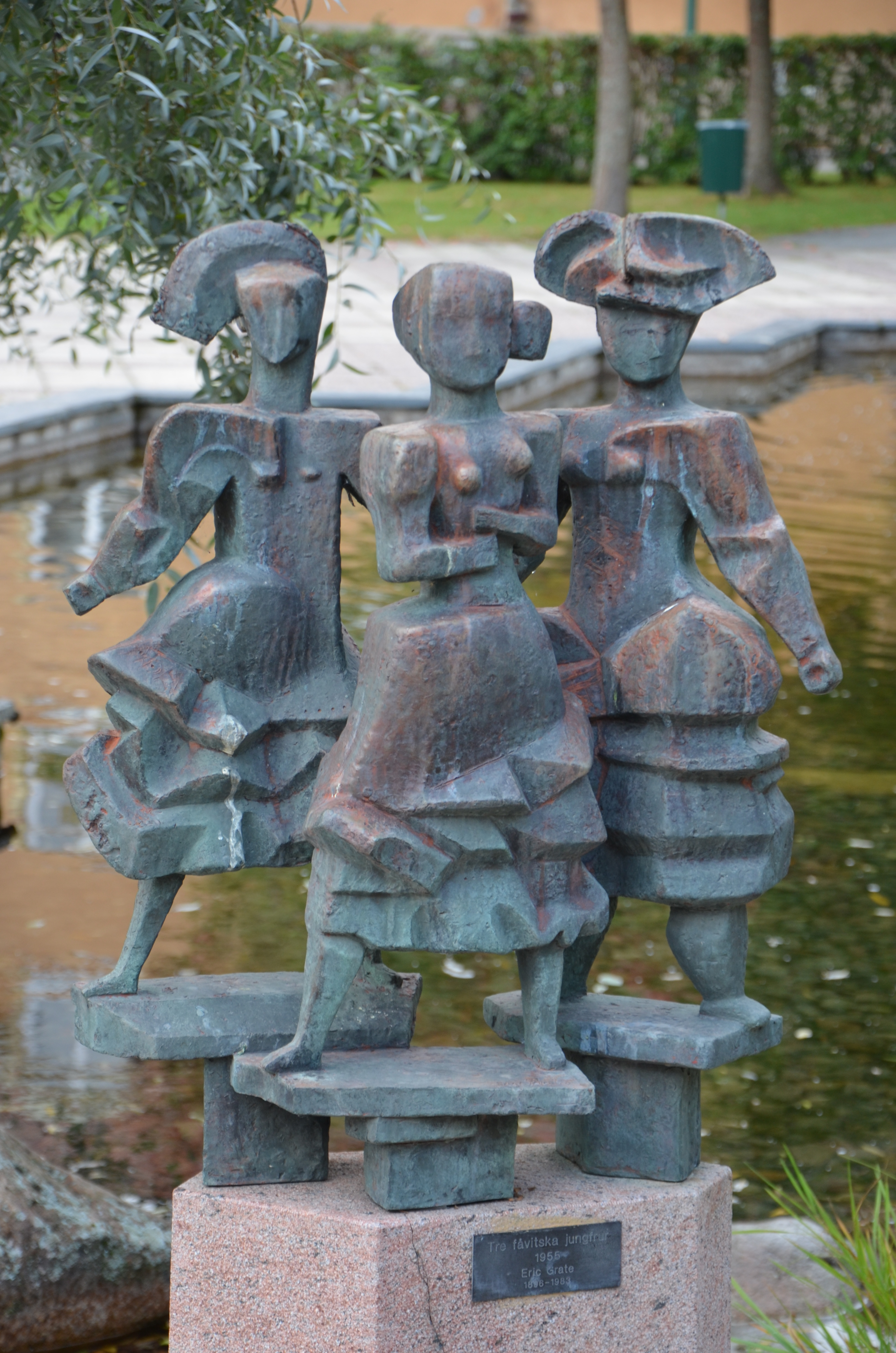 Tre fåvitska jungfrur av Eric Grate i Mästarnas Park i Hällefors It is not clear whether freedom of panorama applies to this image. This is a depiction of a work of art in Sweden. The depicted work is believed to be protected by copyright. According to Article 24 of the Swedish copyright act, "Works of art may be depicted if they are permanently placed on or at a public place outdoors. Buildings may be freely depicted." It has been widely accepted that this provision made distribution of depictions such as this one legal. On 4 April 2016, however, the Supreme Court of Sweden issued a statement that Article 24 does not extend to publication in online repositories, and on 6 July 2017, a lower court ruled that linking to depictions of copyrighted artworks hosted on Commons constitutes copyright infringement. See Commons:Freedom of panorama#Sweden for more information. The implications of these decisions on Commons' ability to continue to distribute this and other depictions like it are currently under analysis. Reusing or linking to this file may have legal consequences. You are solely responsible for ensuring that you do not infringe the copyright belonging to someone else. See our general disclaimer for more information.